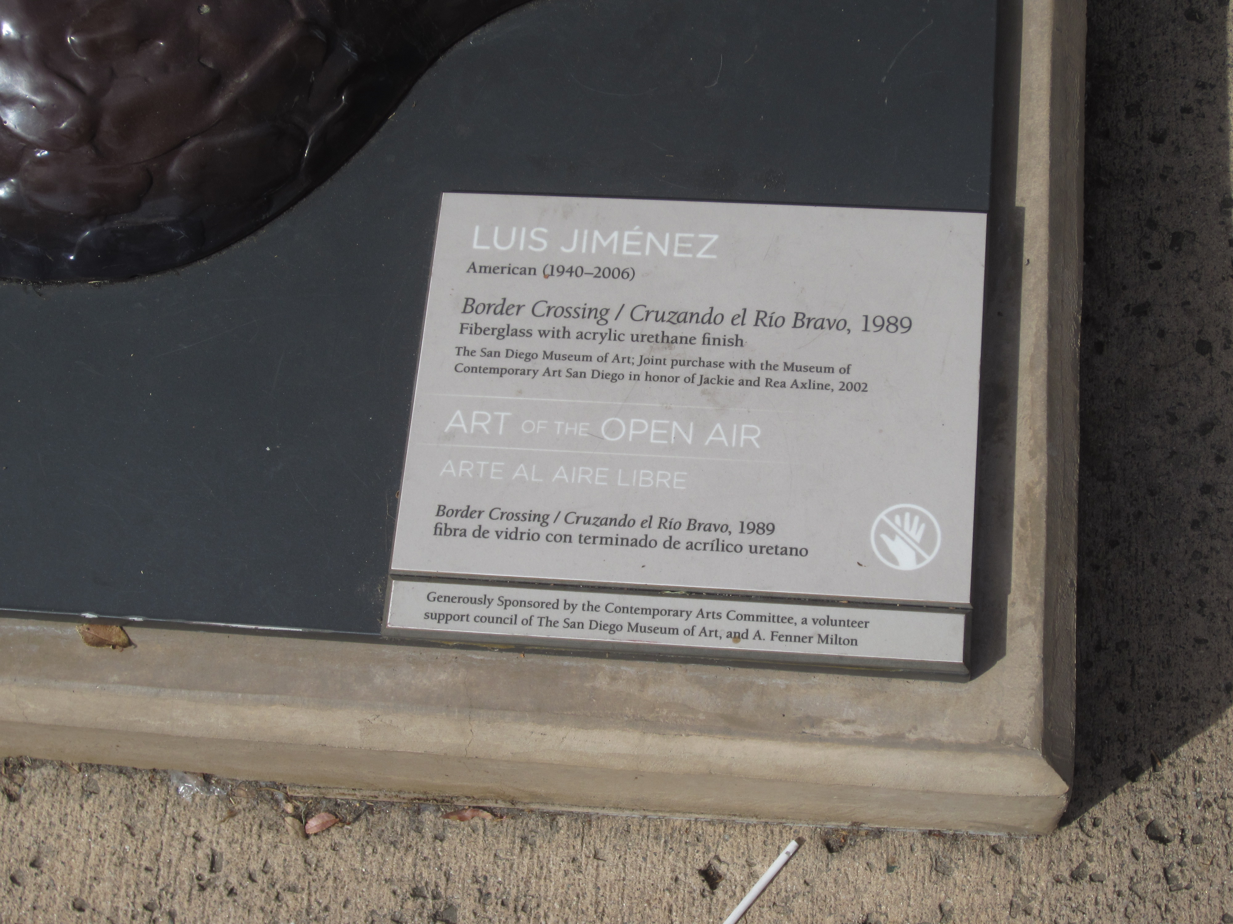 Border Crossing / Cruzando el Río Bravo plaque, San Diego, 2016